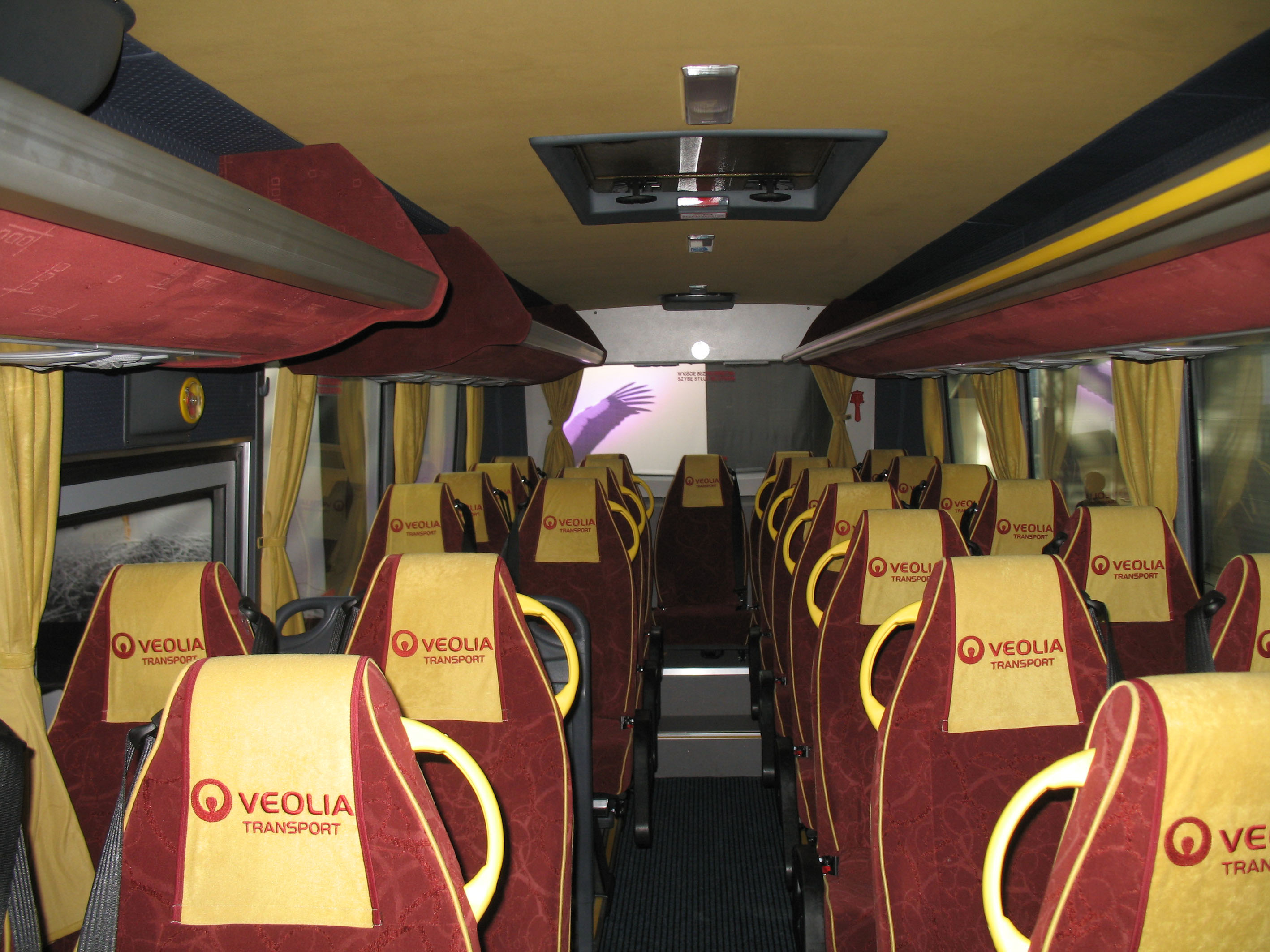 Autosan A0808T Gemini bus interior in Kielce, Poland. Built 2010, Veolia Transport Oddział Sanok operator. Transexpo 2010.